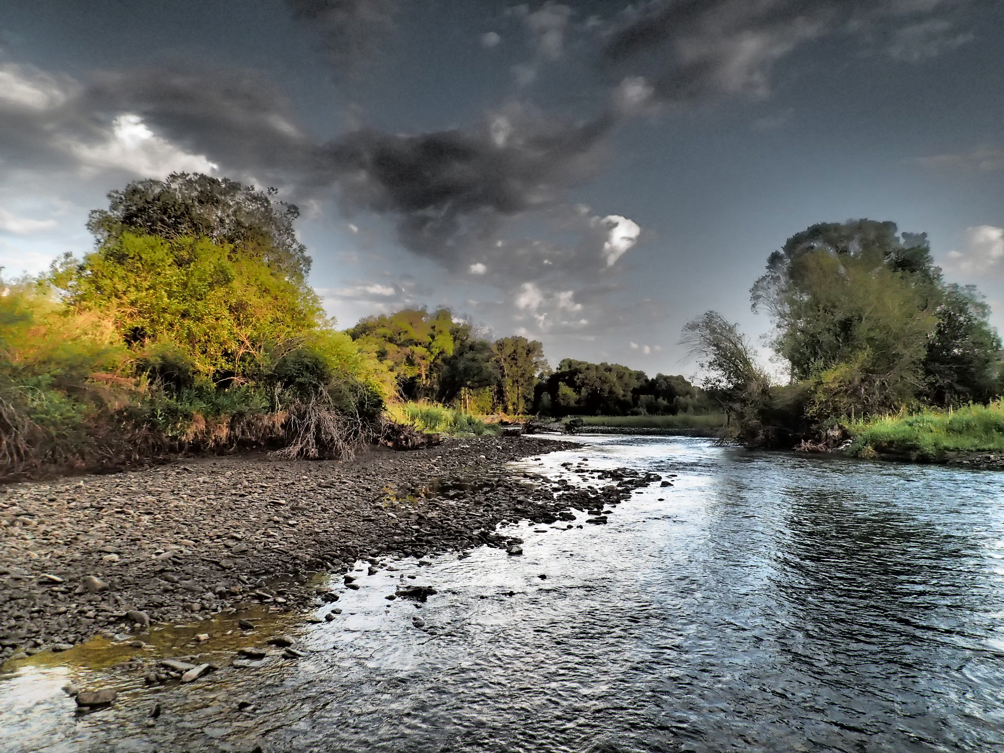 Shields River near Convict Grade Road, Park County Montana, July 8, 2015